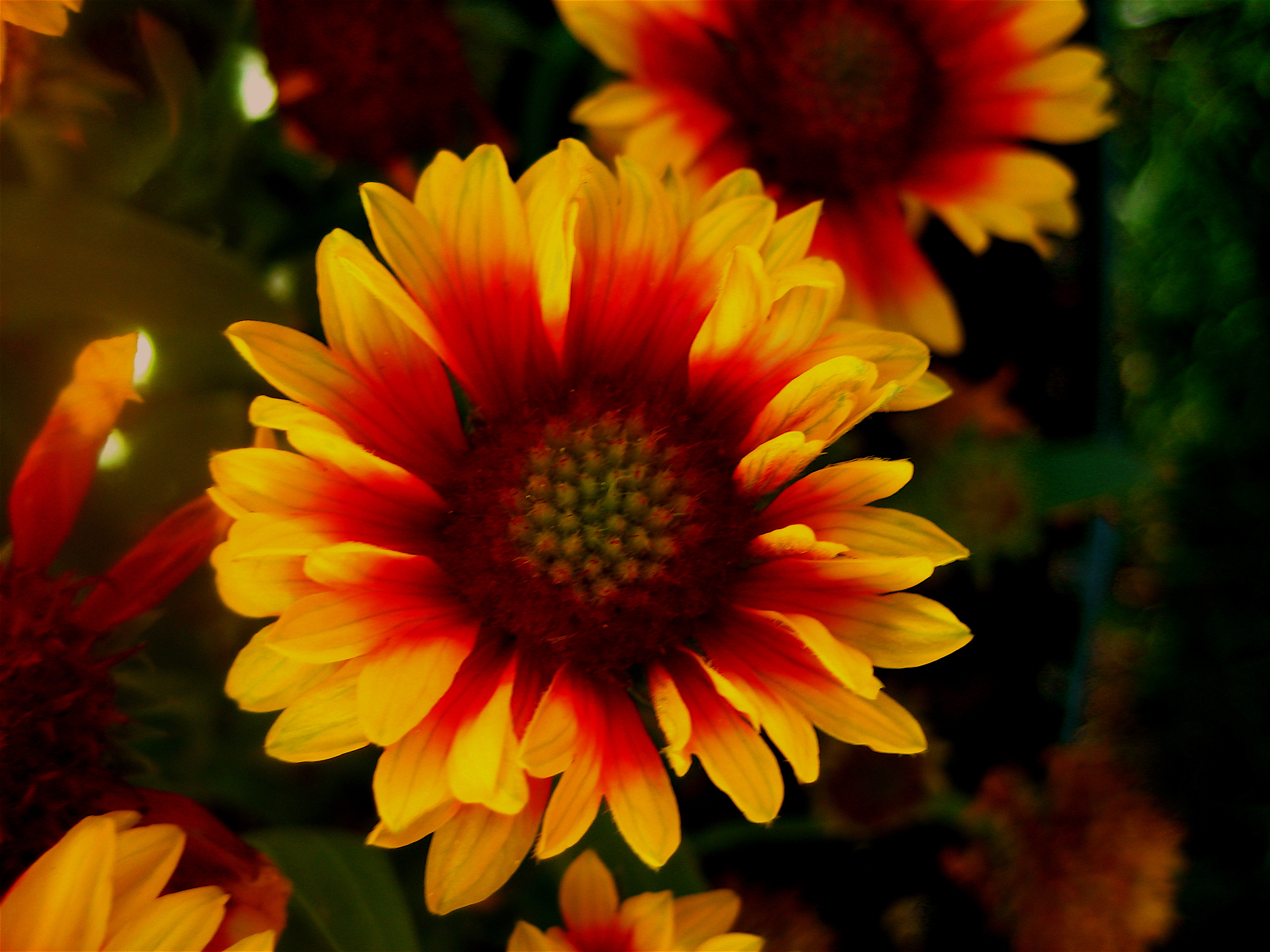 Picture of a Gaillardia aristata (blanketflower or firewheel), that was photographed in the neighborhood called Capitol Hill - Denver, Colorado USA.